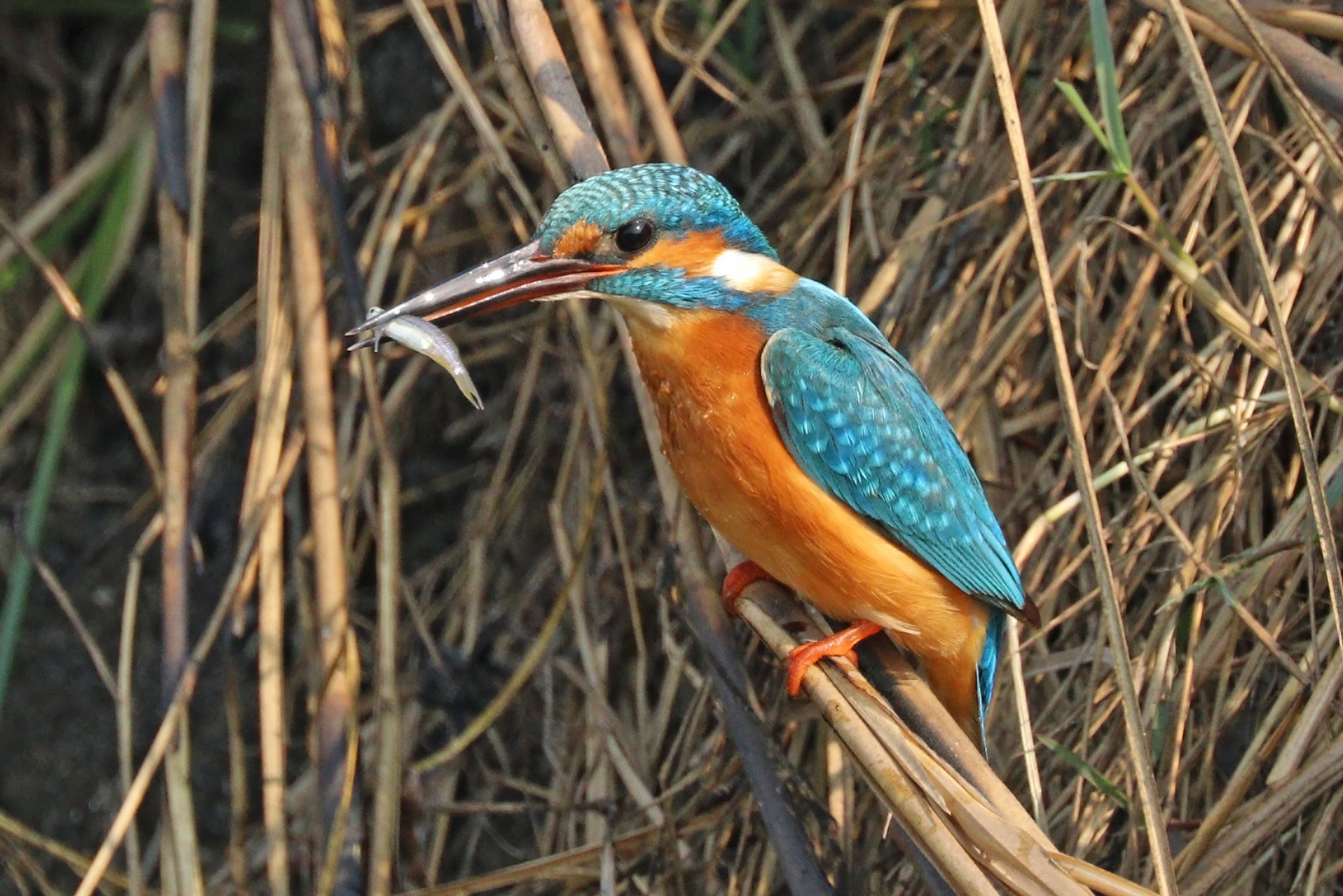 Common kingfisher (Alcedo atthis bengalensis) female with fish, Salai, UP, India